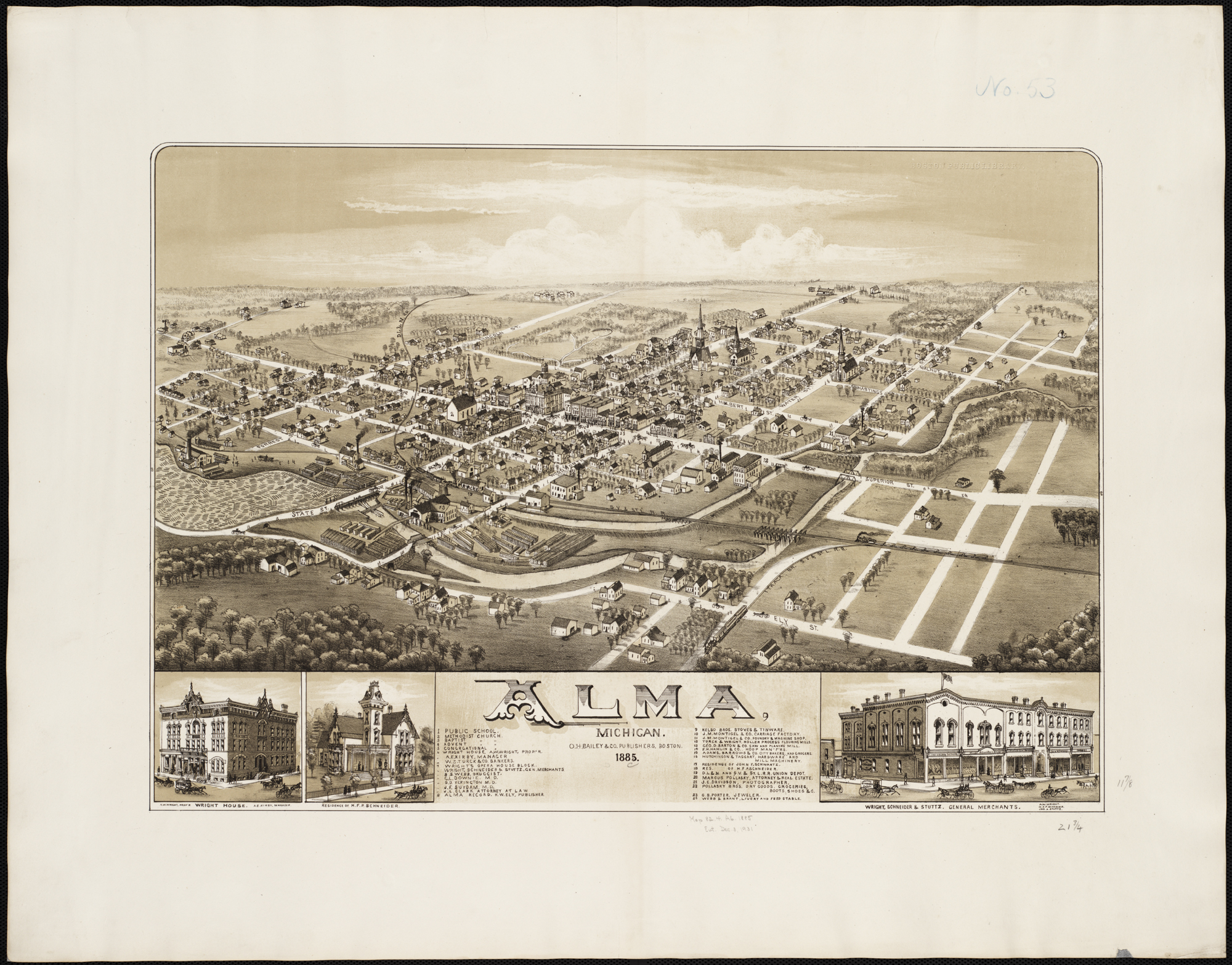 Zoom into this map at . Author: O.H. Bailey & Co. Publisher: O.H. Bailey & Co. Date: [1885] Location: Alma (Mich.) Scale: Not drawn to scale Call Number: G4114.A6A3 1885.O43